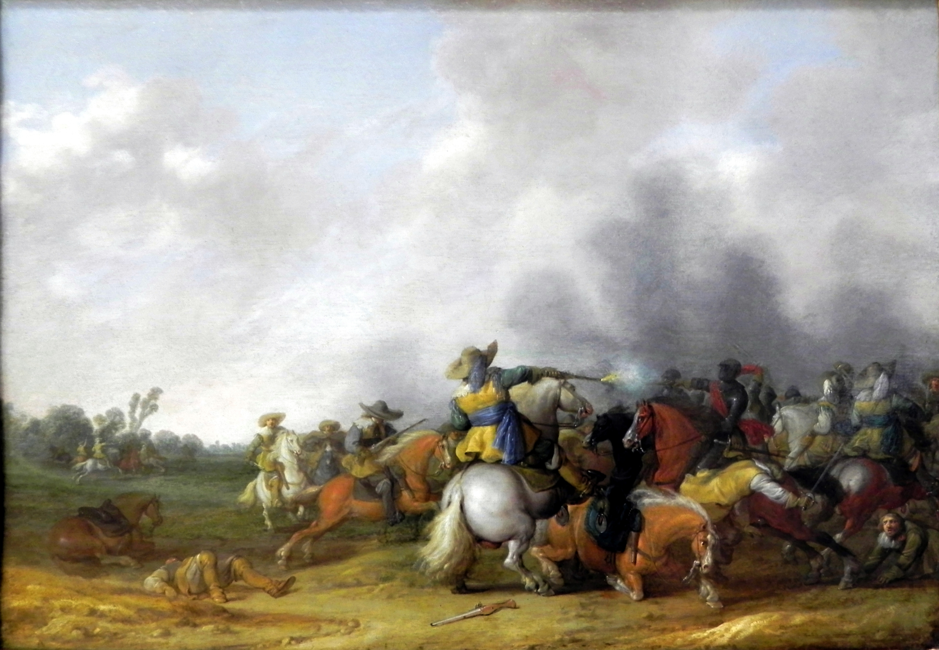 Rider's battle